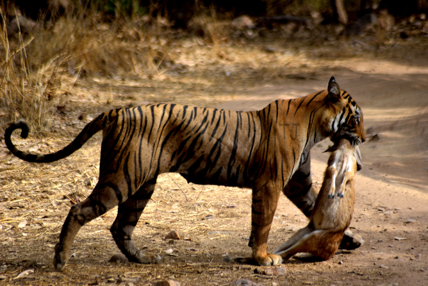 This photograph was clicked by me at Ranthambhore National Park , Rajasthan. This image showcases a beautiful tigress with its prey, a deer in its mouth.